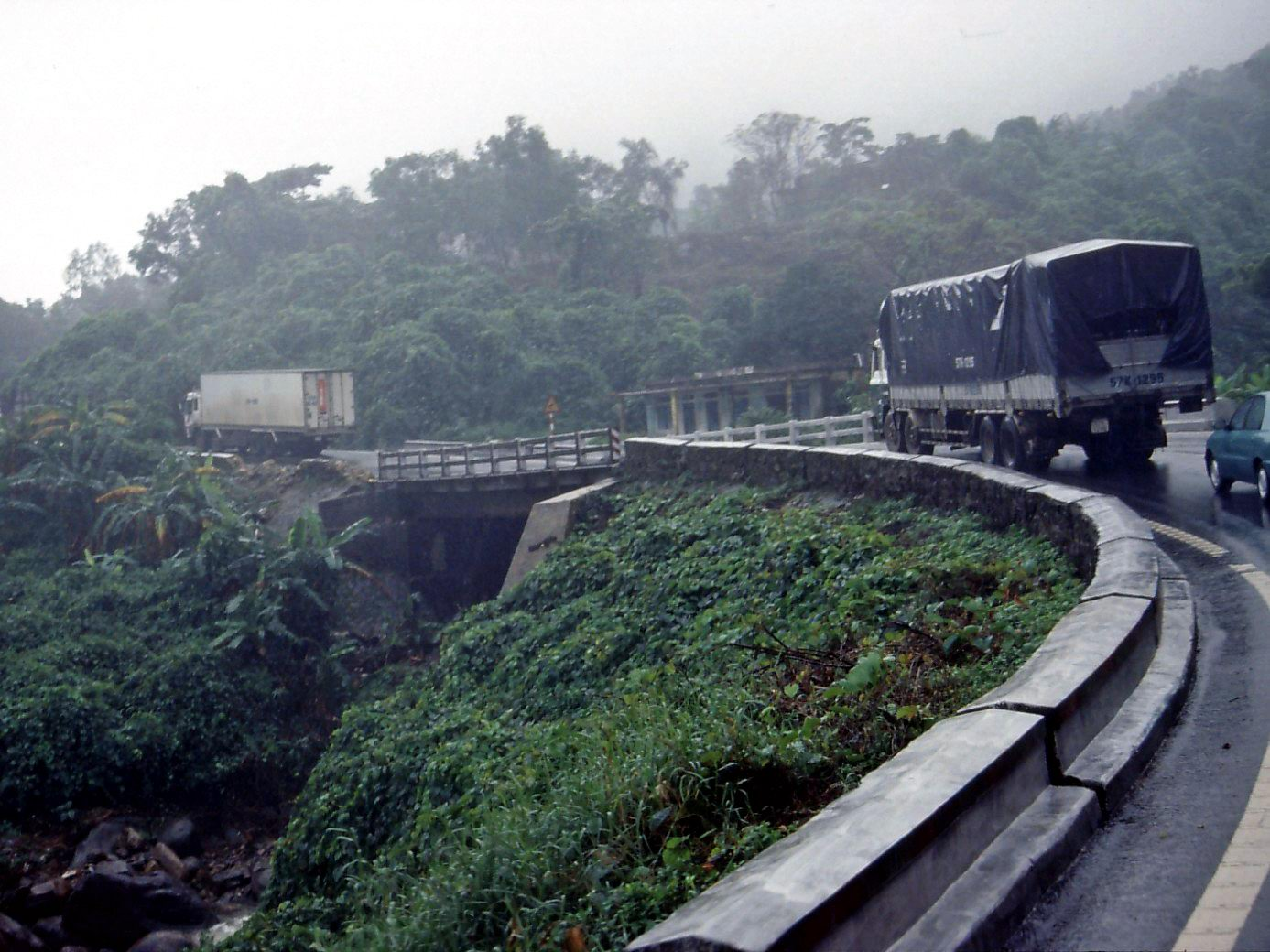 Hai Van Pass ("Sea Cloud Pass"), Vietnam